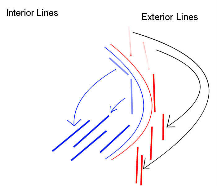 Depiction of the advantages of interior lines in battle field tactics